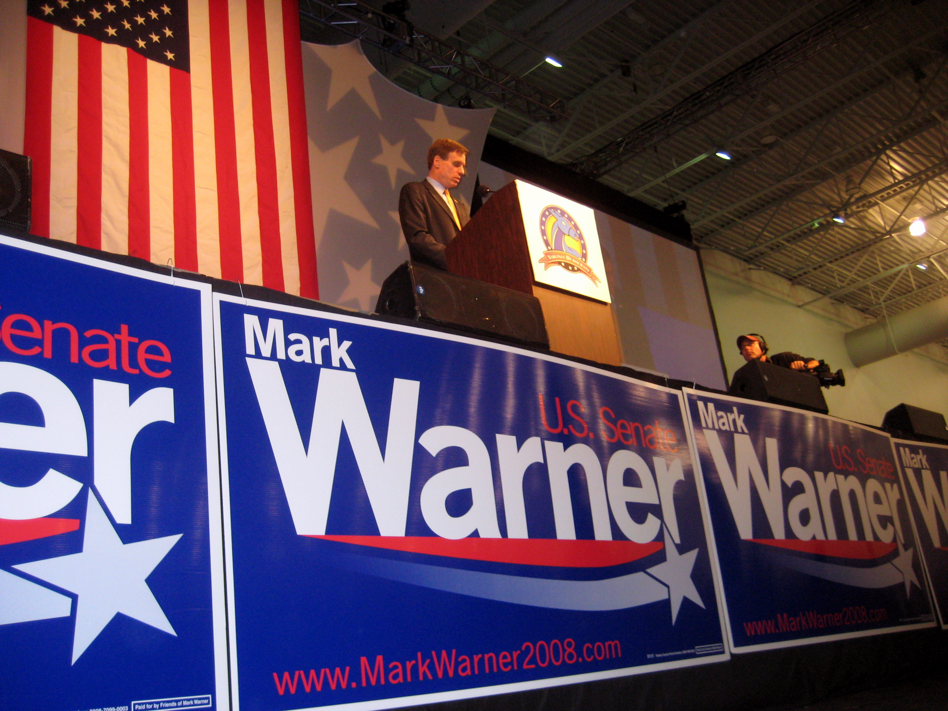 Mark Warner accepts the Democratic nomination for U.S. Senate at the Virginia State Democratic Convention on June 14, 2008.